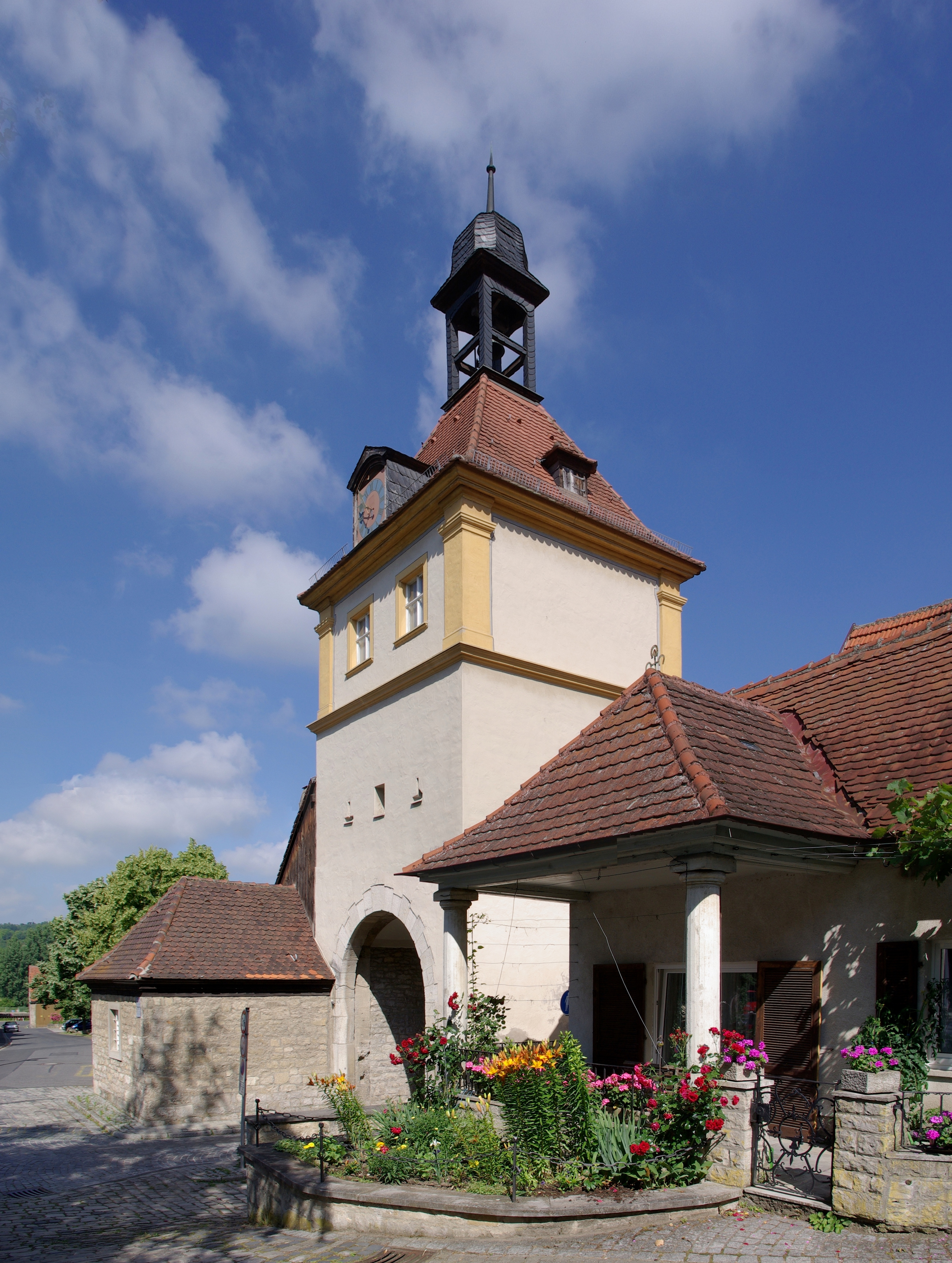 Germany, Sommerhausen, Ochsenfurt gate